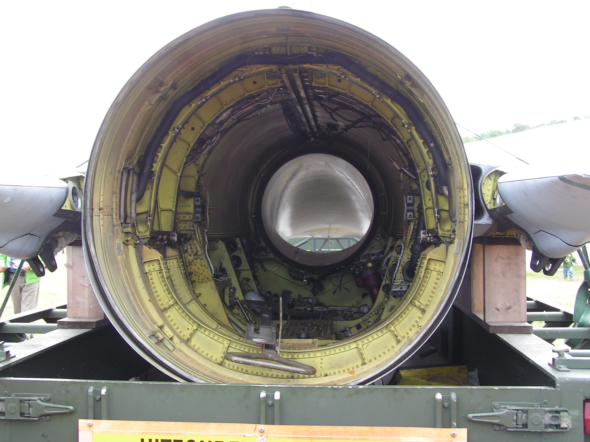 Inside of an F-16 on transport. You can see all the way to the engine intake.